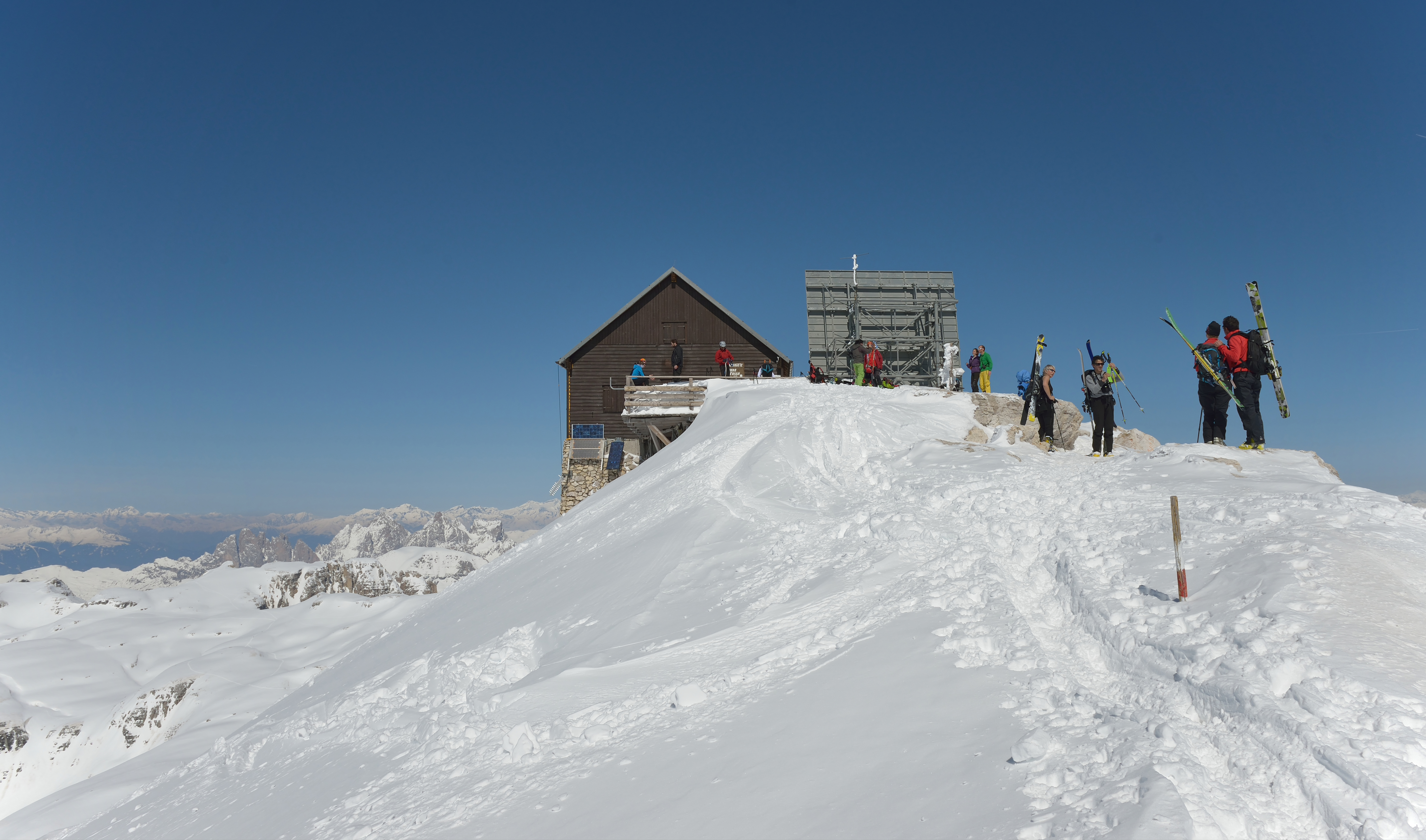 Summit of Piz Boè 3152 m elevation with the mountain shelter "CapannaFassa" in the Sella Group, South Tyrol